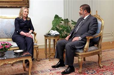 Hillary Clinton meets with Egyptian President Mohammed Morsi. July 2012.